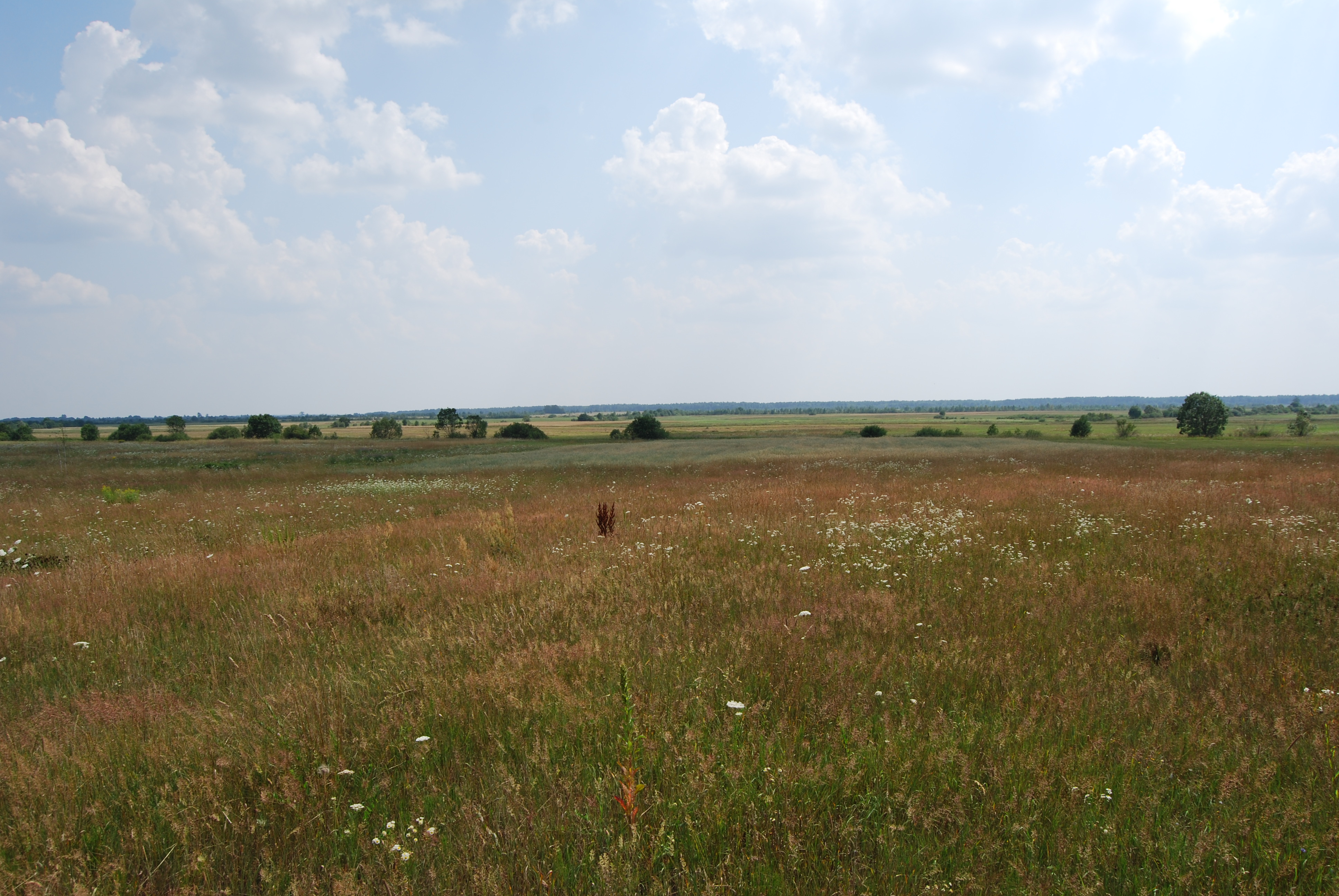 Colony of Siedlisko.